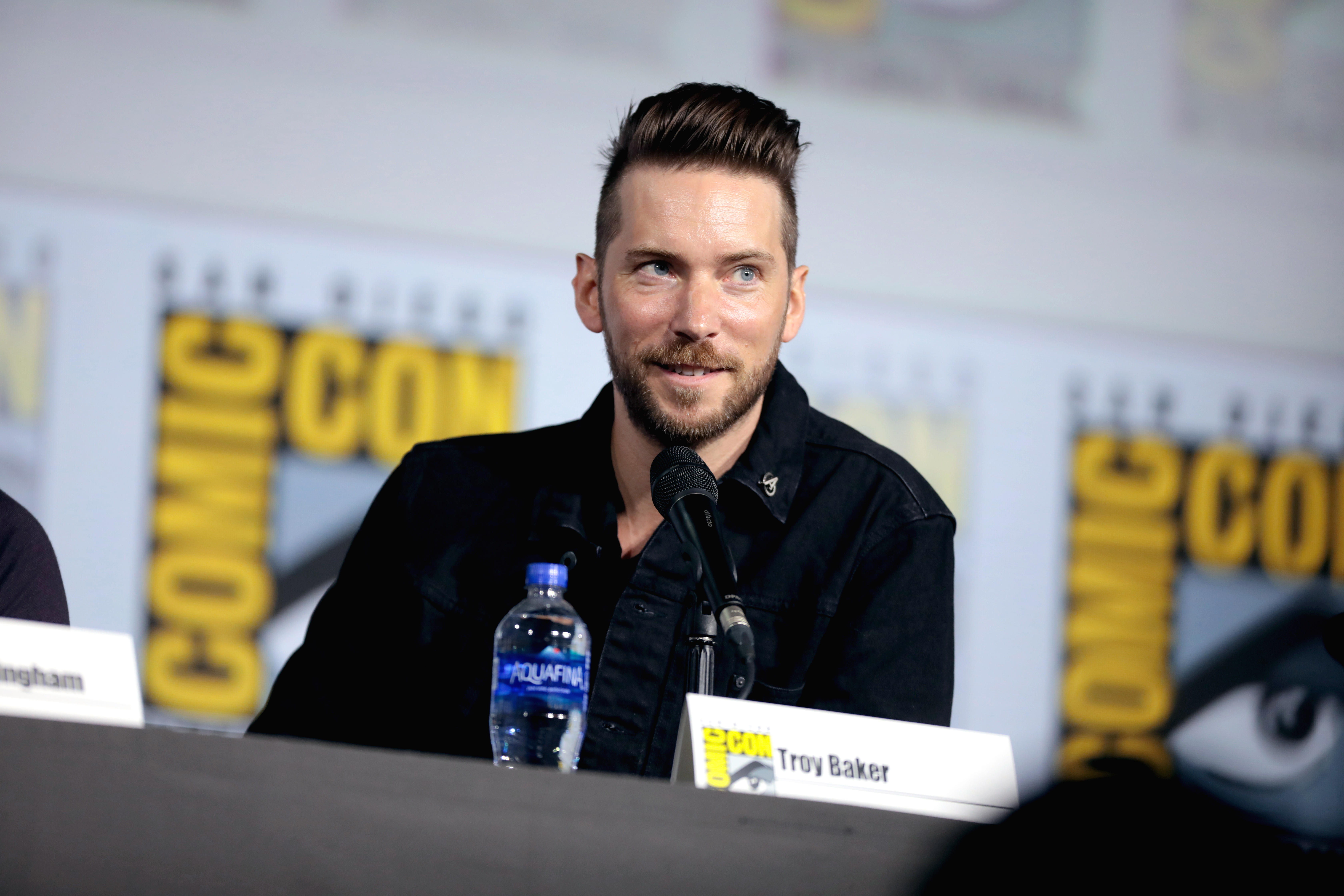 Troy Baker speaking at the 2019 San Diego Comic Con International, for "Marvel Games", at the San Diego Convention Center in San Diego, California.